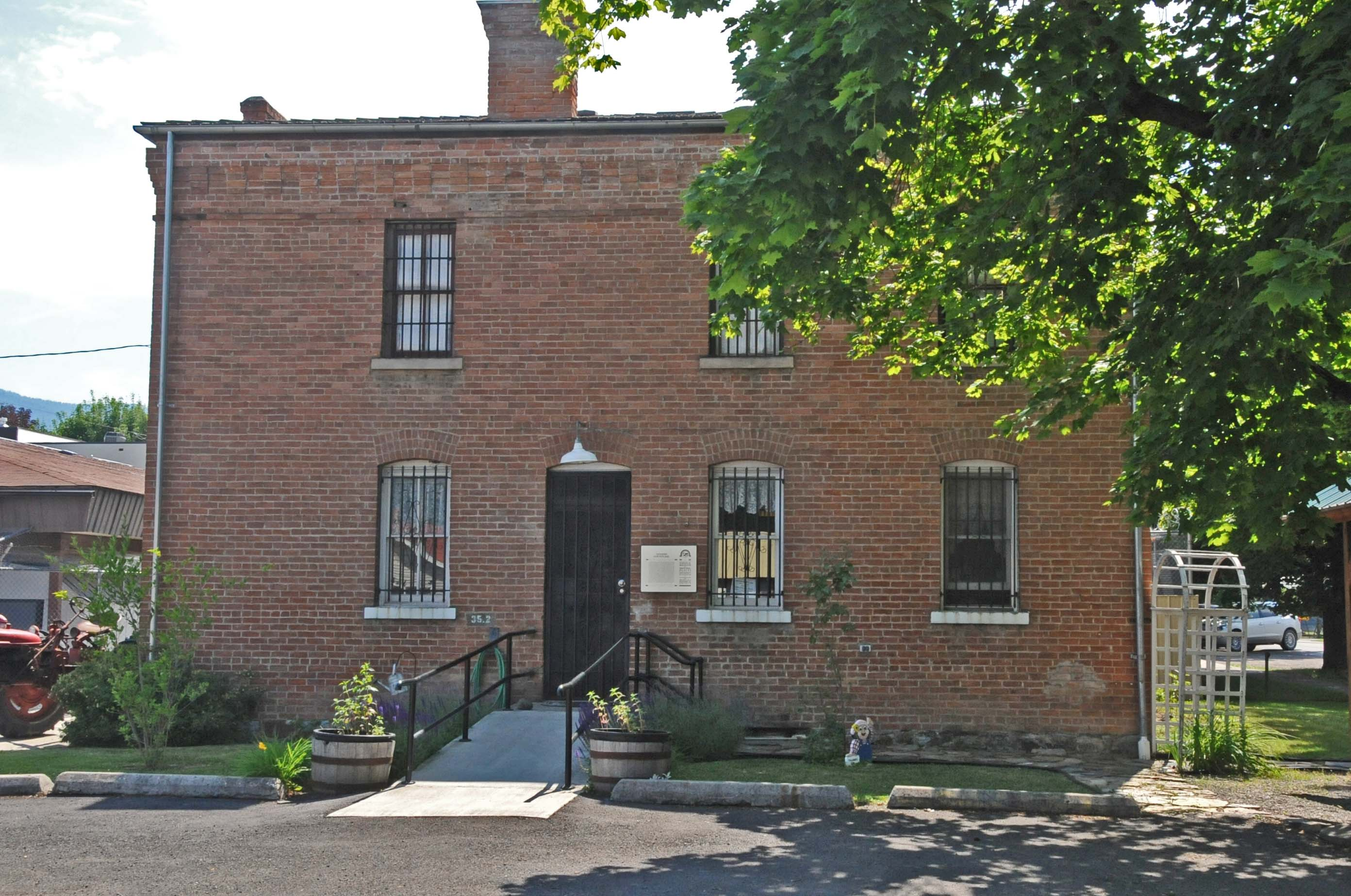 1907 ITALIANATE